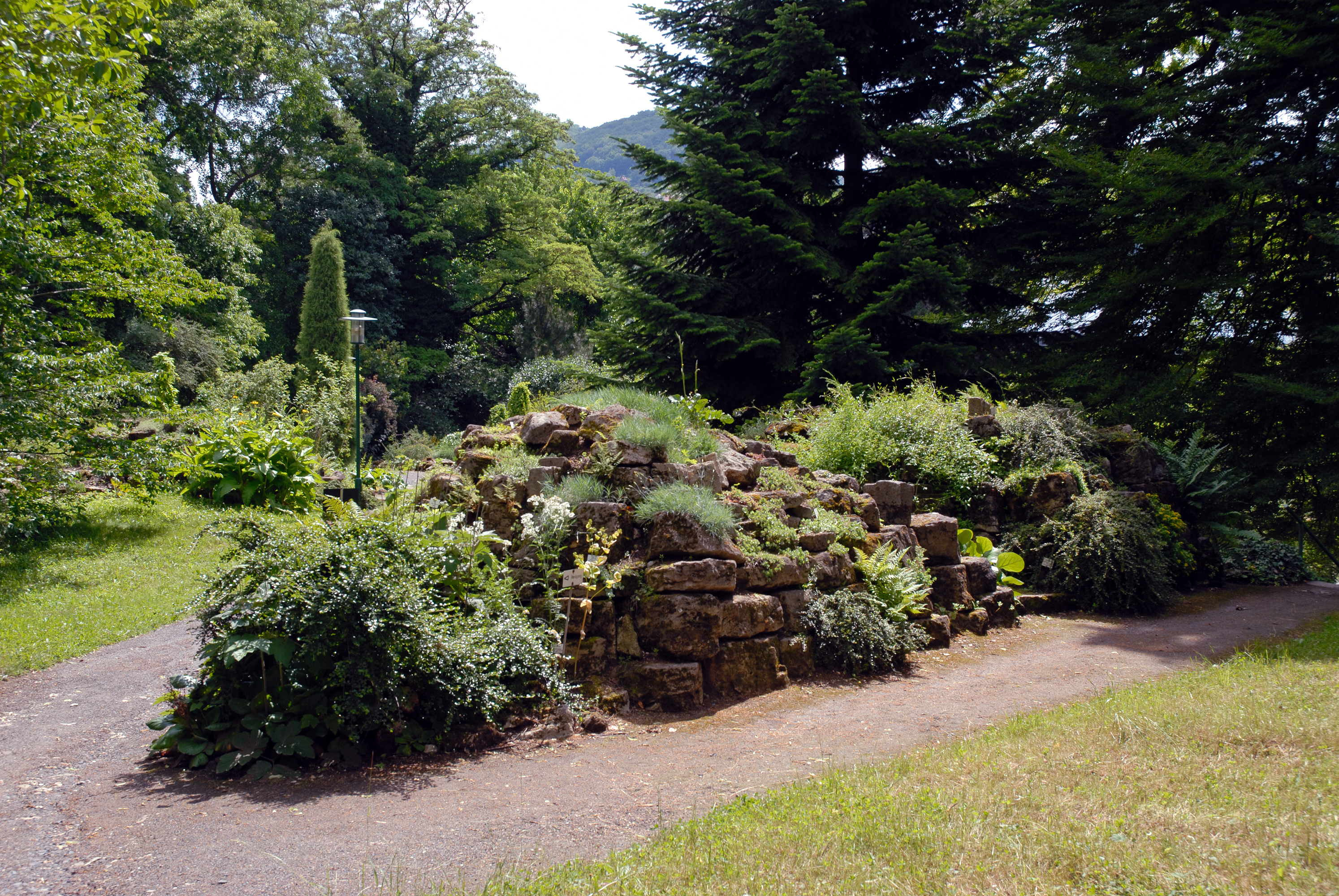 This image shows the botanical garden in Jena.